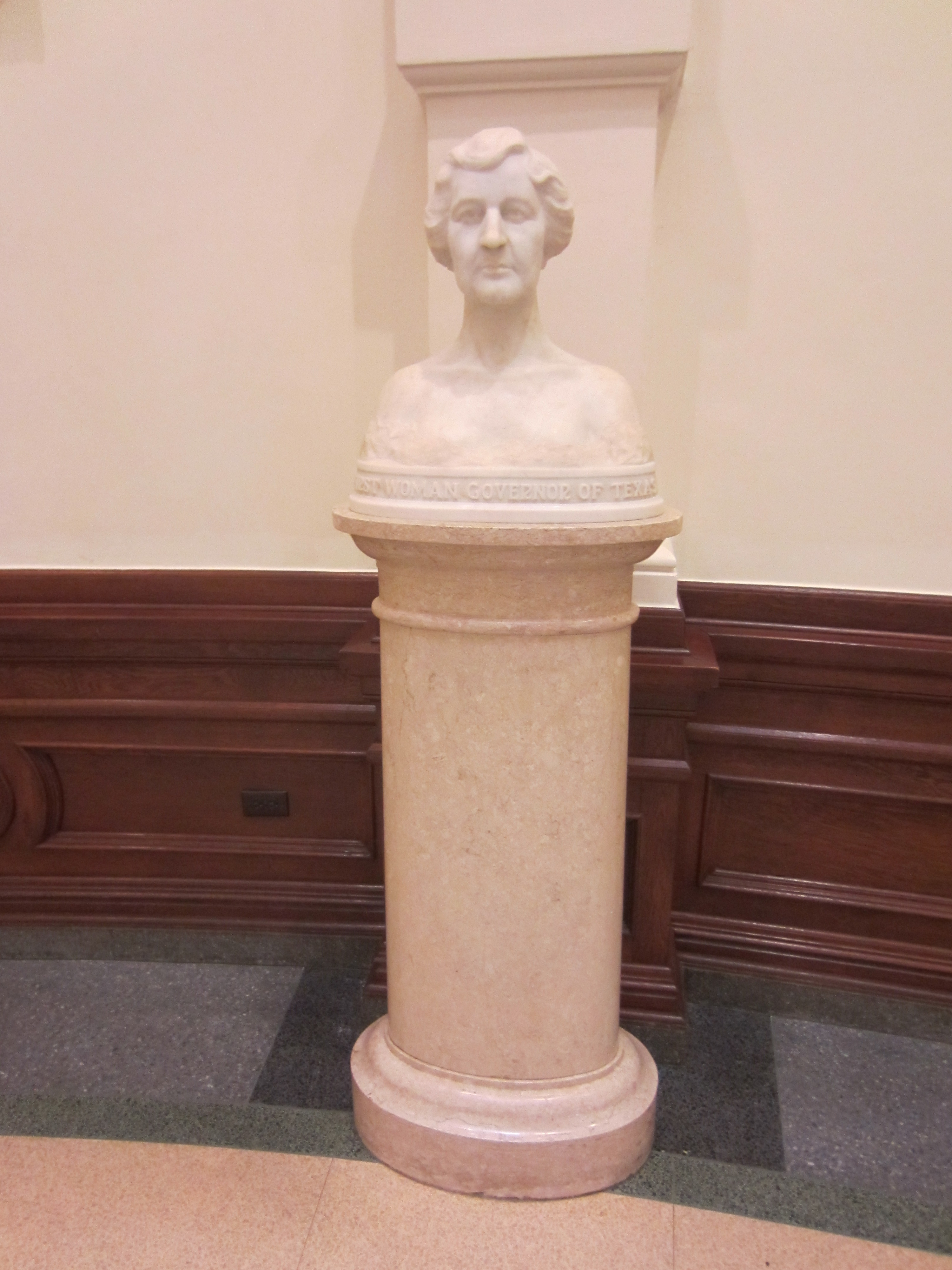 Austin, Texas (August 30, 2018)